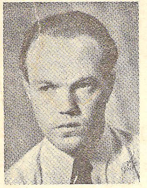 Author Harry Ahlberg